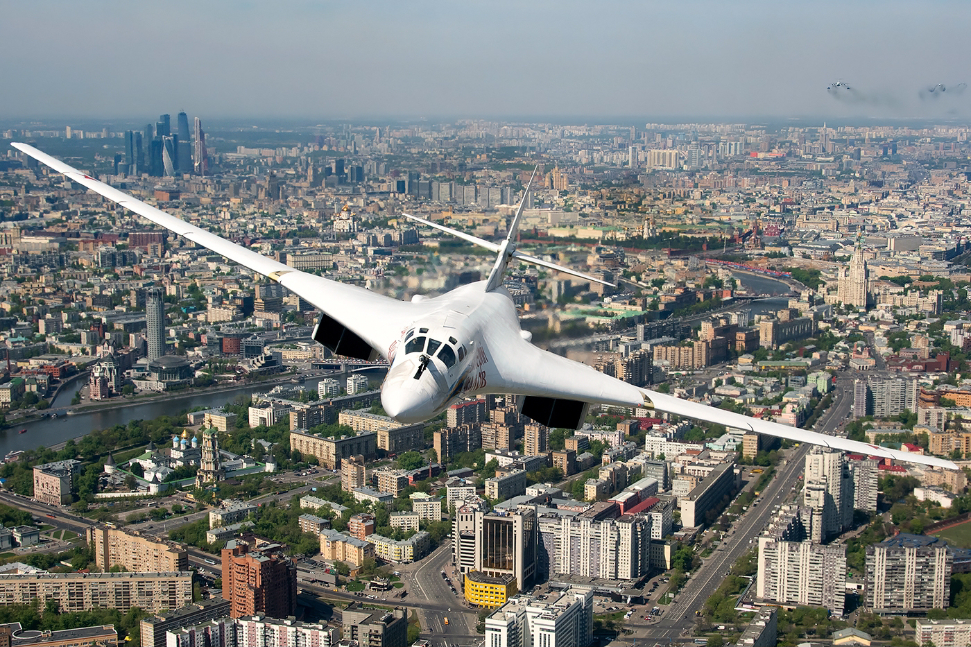 Tupolev Tu-160 (RF-94110) in flight over Moscow. The aircraft was part of the flypast for the 70th Victory Day Parade